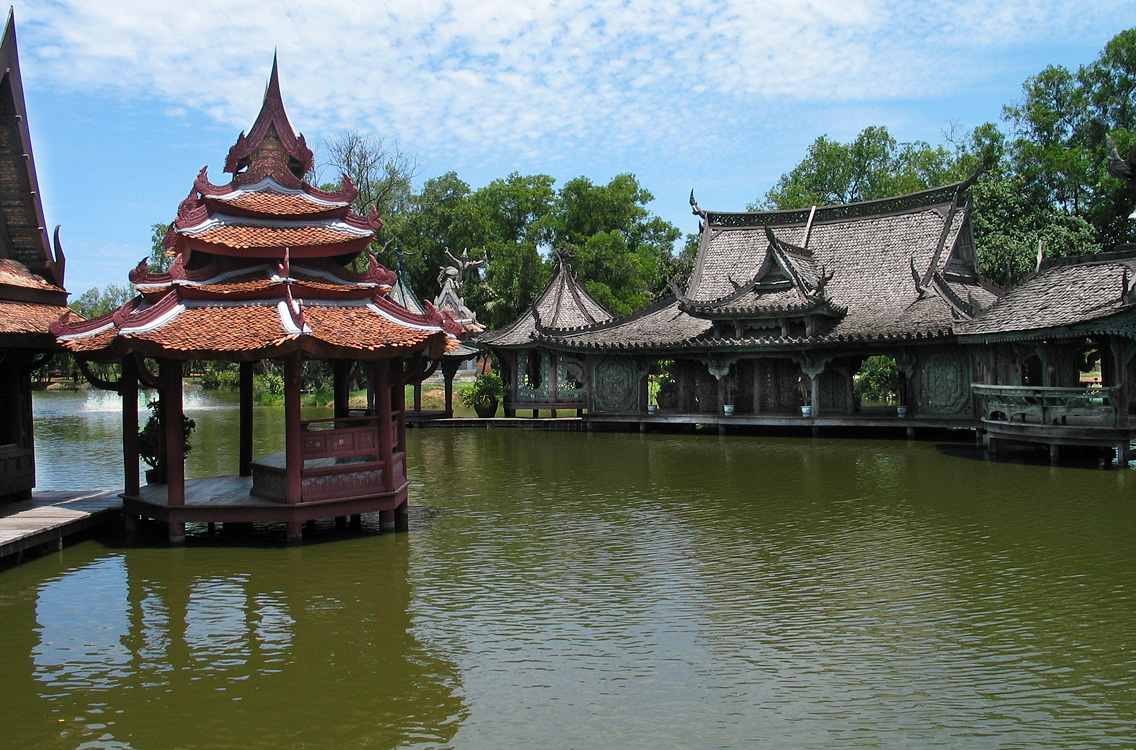 Mueang Boran open-air-museum near Bangkok (Thailand): "The Floating Market".